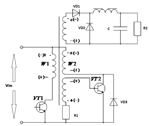 Прямоходовий інвентор зі збільшеним розмахом індукції